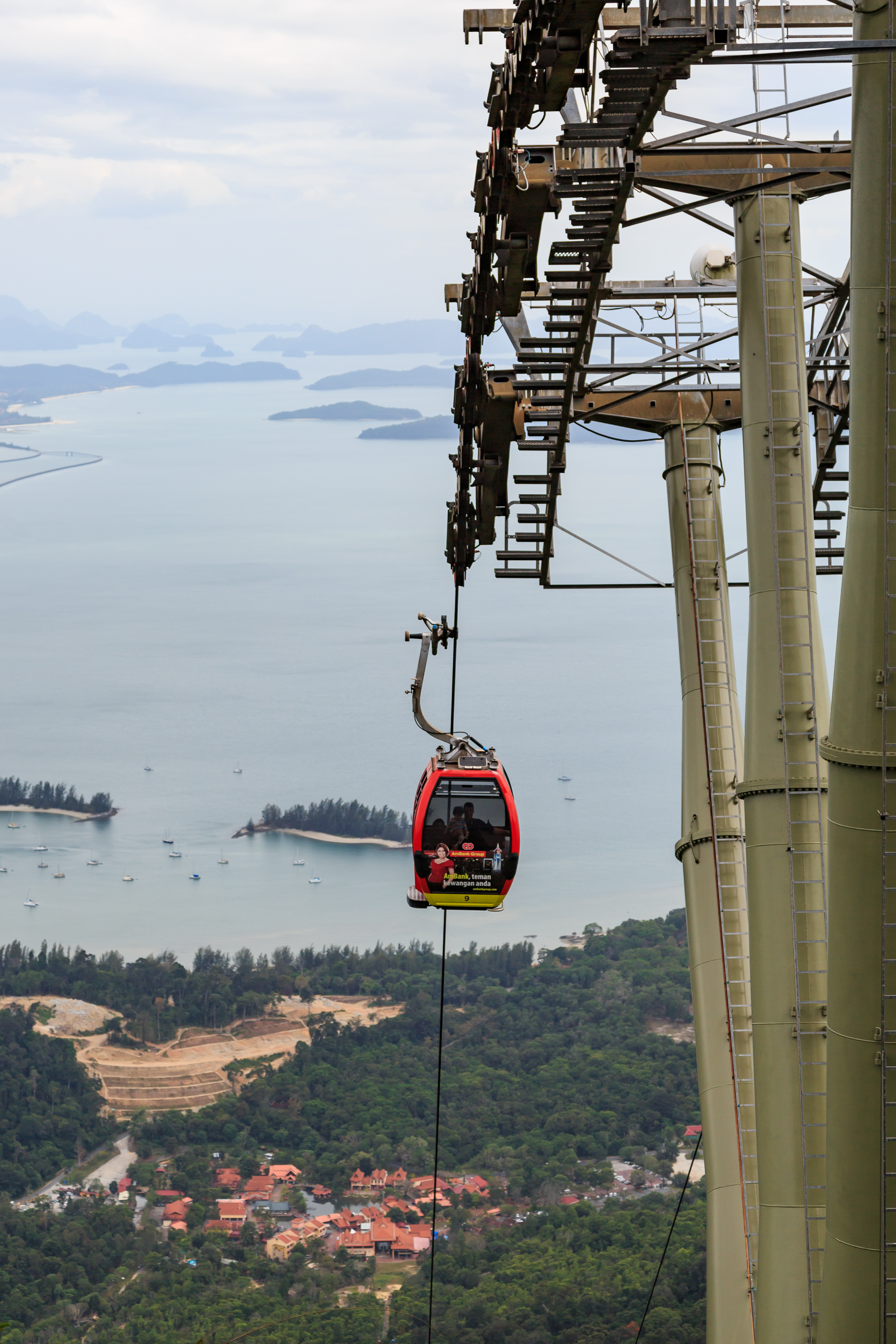 Langkawi, Malaysia: Langkawi Cable Car, view from Middle Station to Base Station